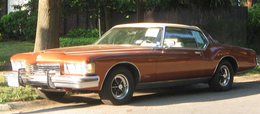 1973 Buick Riviera photographed in Chevy Chase, Maryland, USA.